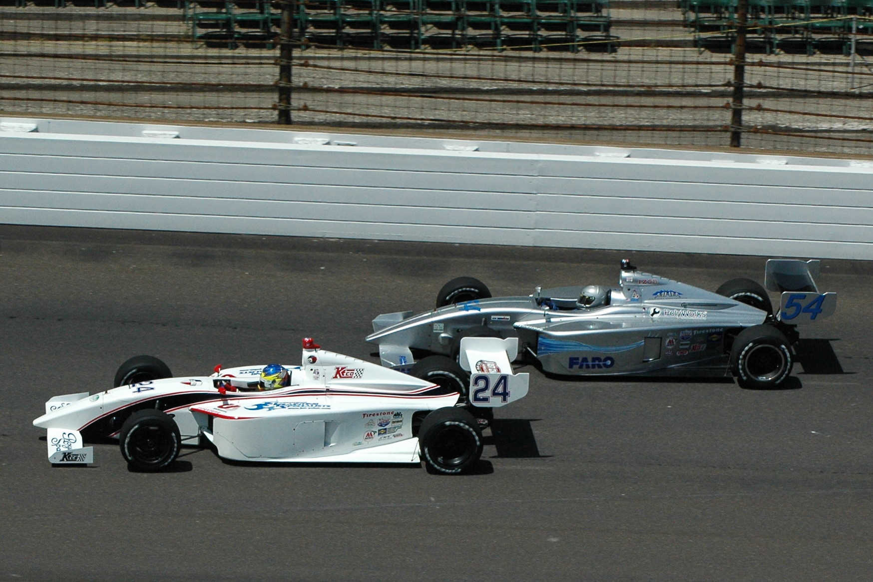 Chris Festa (inside) and Micky Gilbert (outside) race in the 2008 Firestone Freedom 100 Indy Lights race.